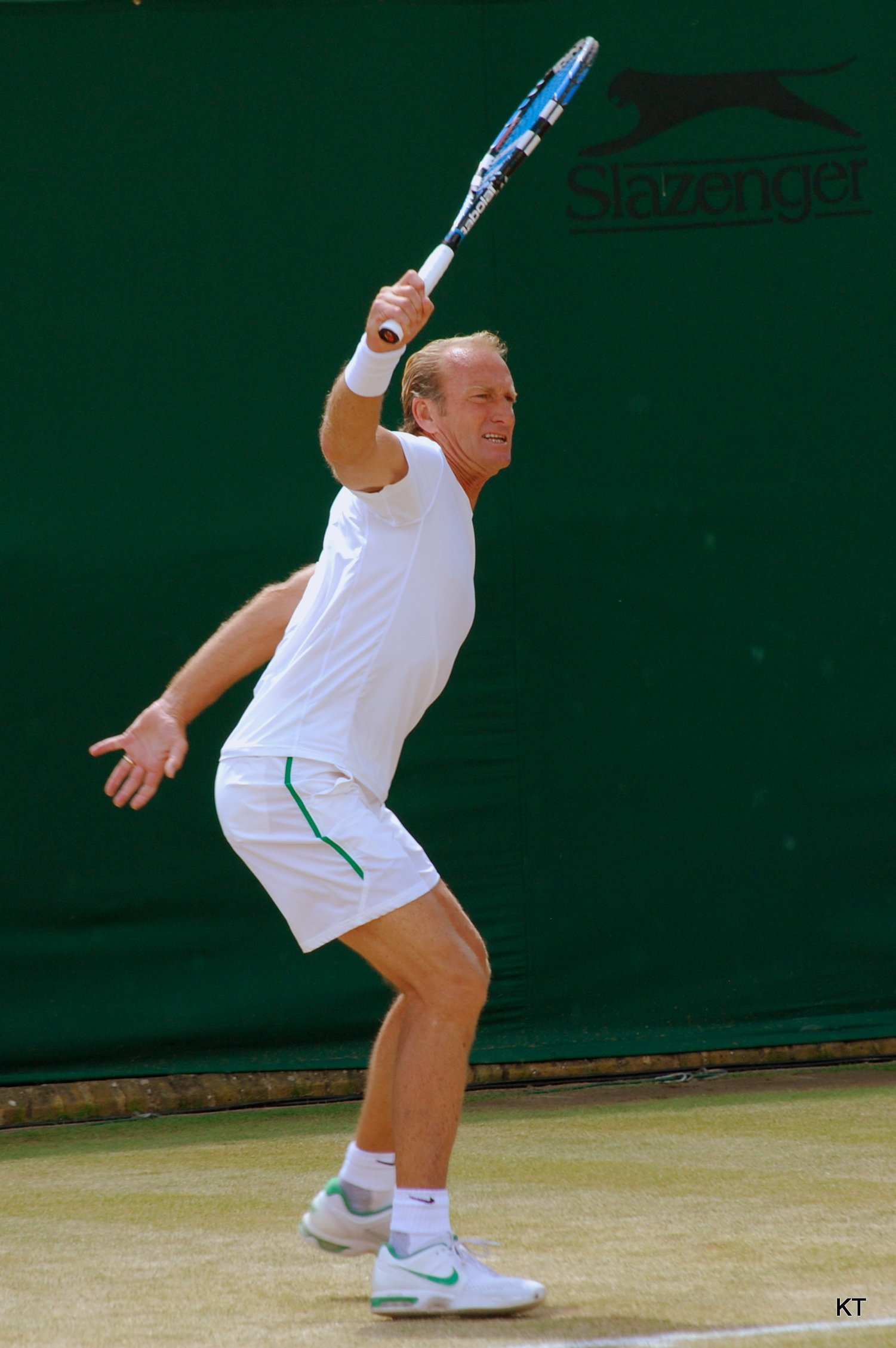 Senior Gentlemen's invitational doubles - Jeremy Bates & Anders Jarryd v Peter McNamara & Paul McNamee. Day 11 of Wimbledon 2011.